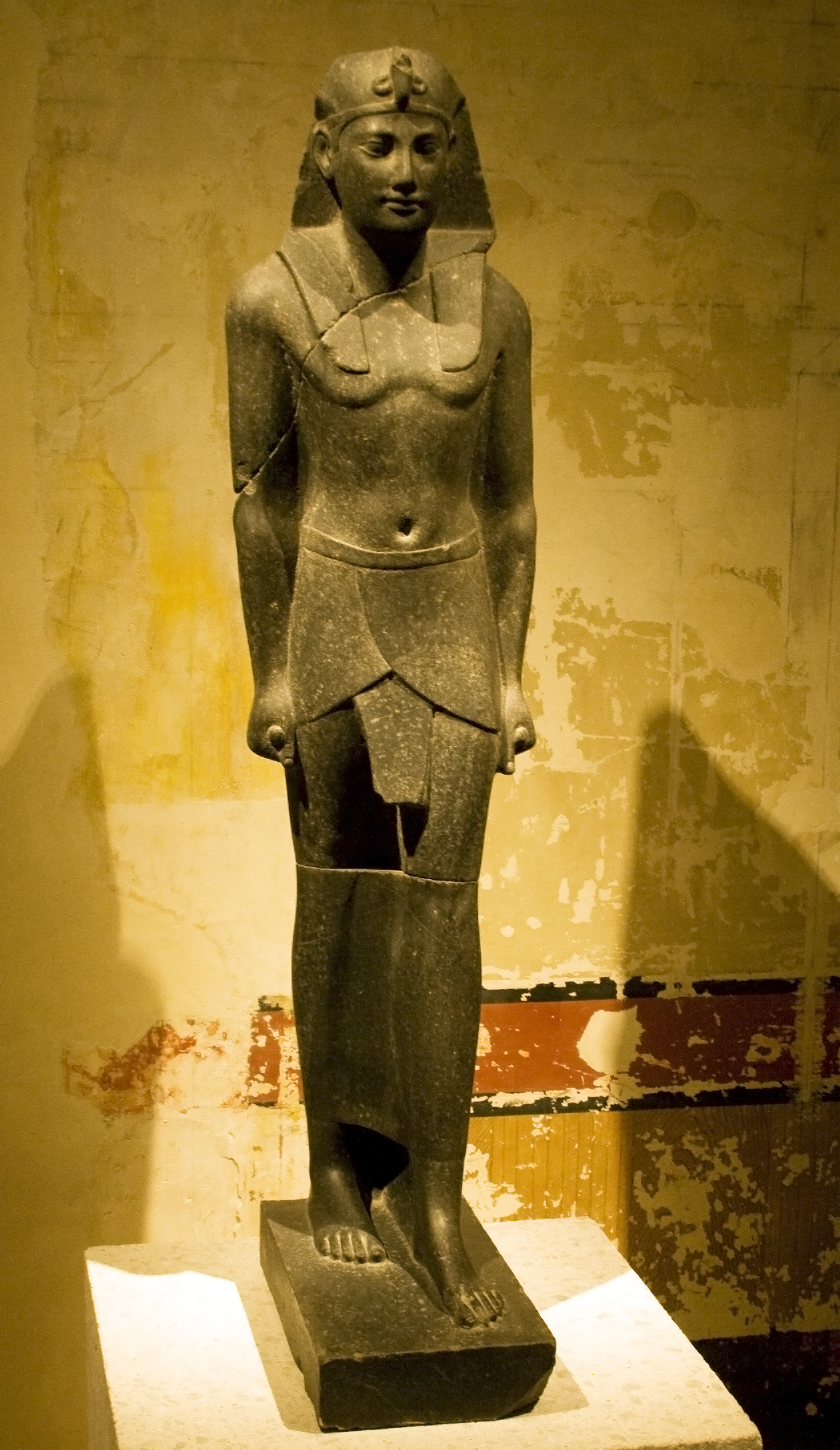 Ptolemy III Euergetes (?), standing figure, misplaced lower part